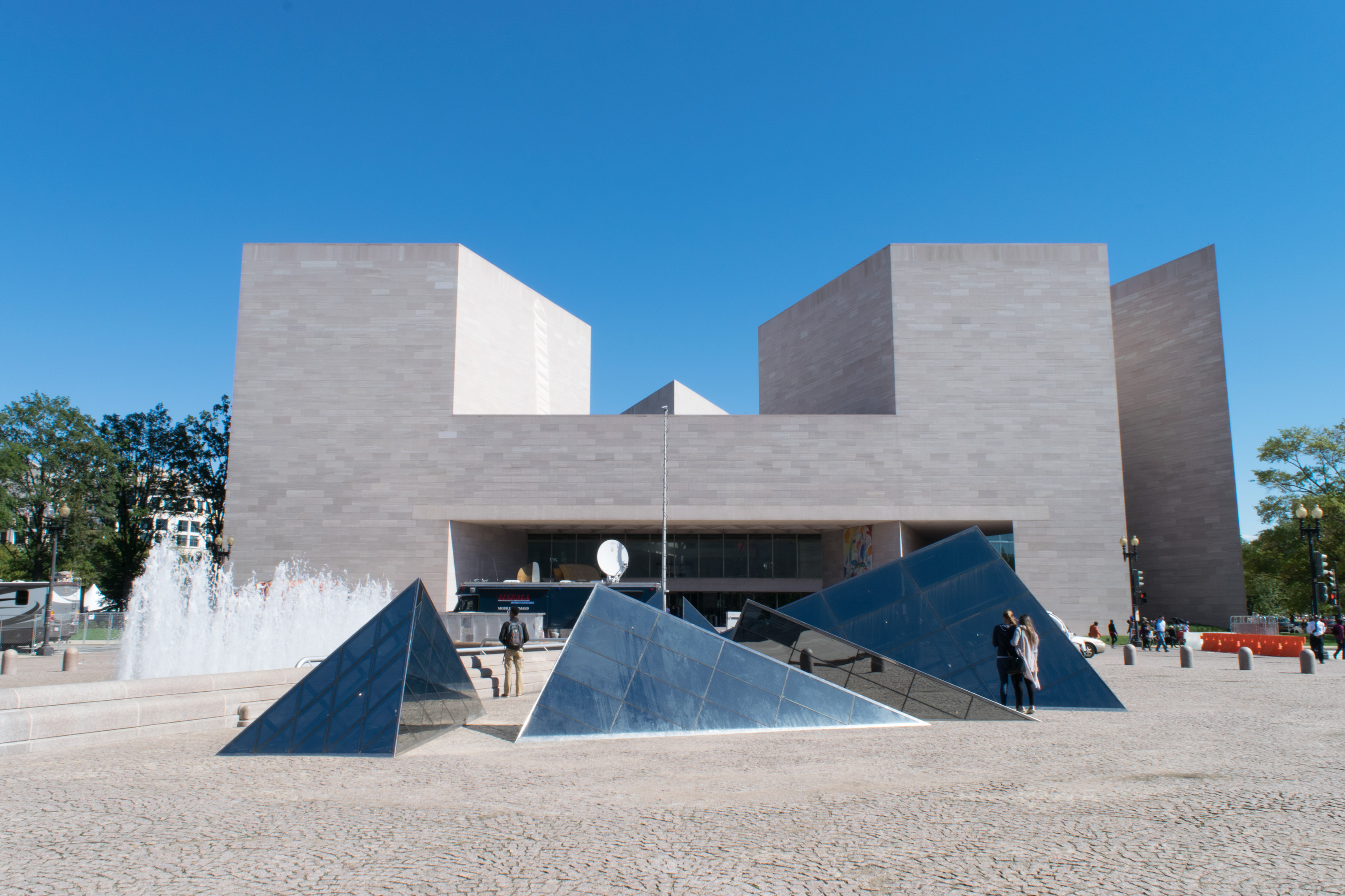 East Building of the National Gallery of Art